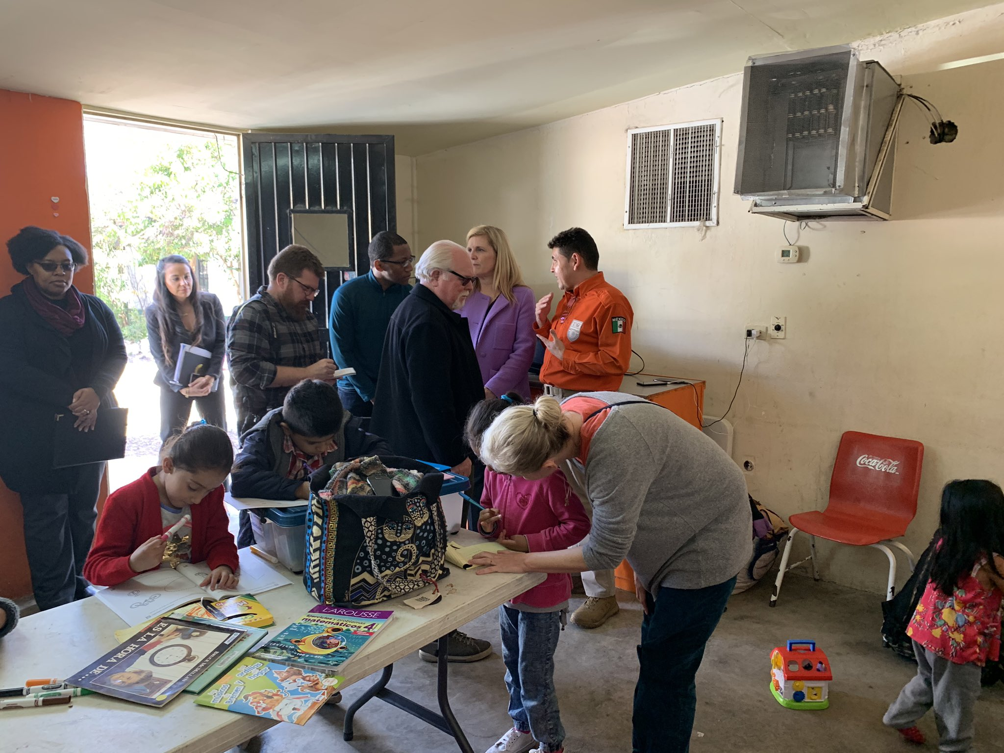 Instituto Nacional de Migración